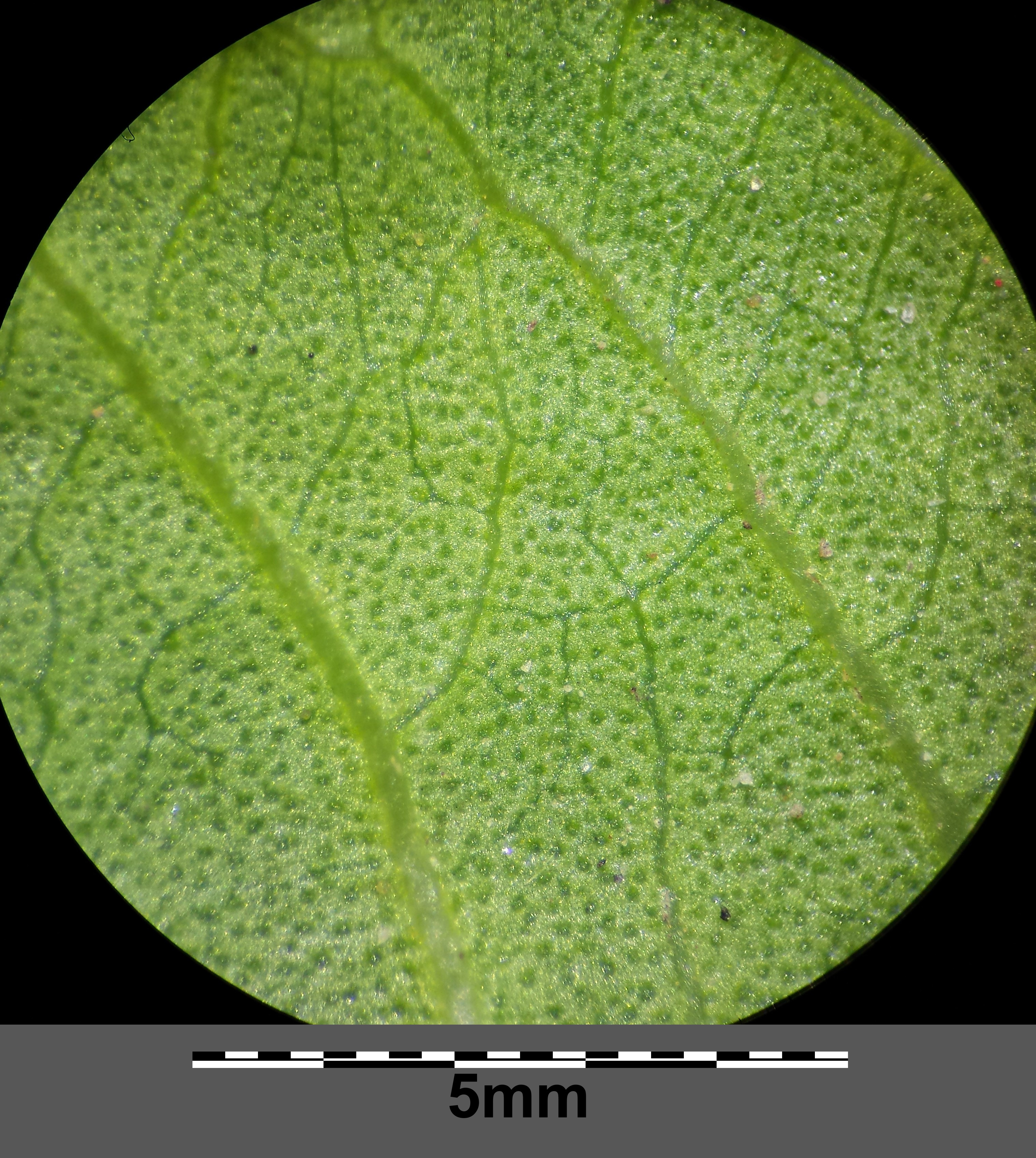 Bottom side of leaf with glands Taxonym: Persicaria lapathifolia subsp. brittingeri ss Fischer et al. EfÖLS 2008 ISBN 978-3-85474-187-9 Location: Schichtgründe, Leopoldau, Vienna-Floridsdorf - ca. 160 m a.s.l. Habitat: building zone